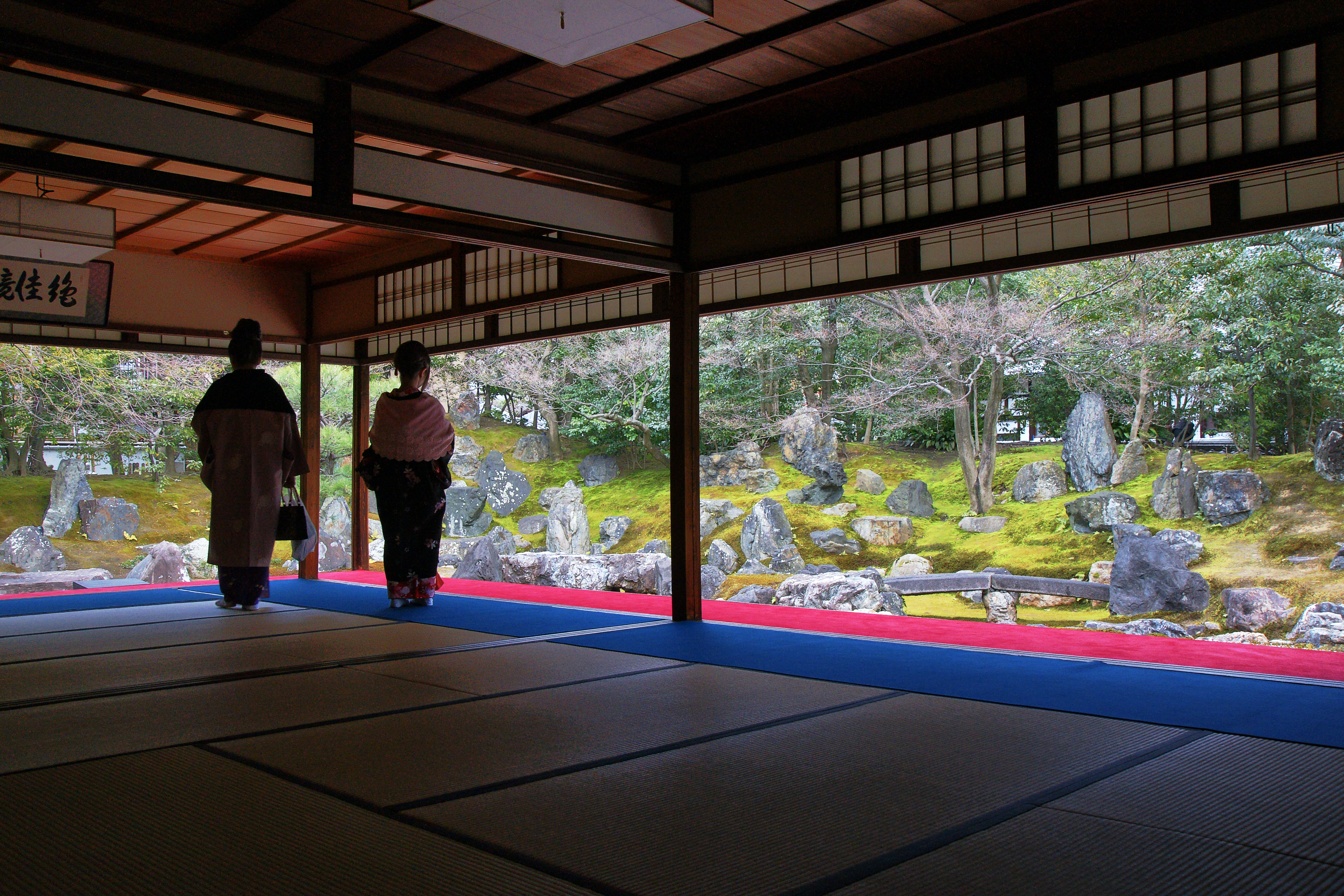 Entokuin in Higashiyama-ku, Kyoto, Kyoto Prefecture, Japan